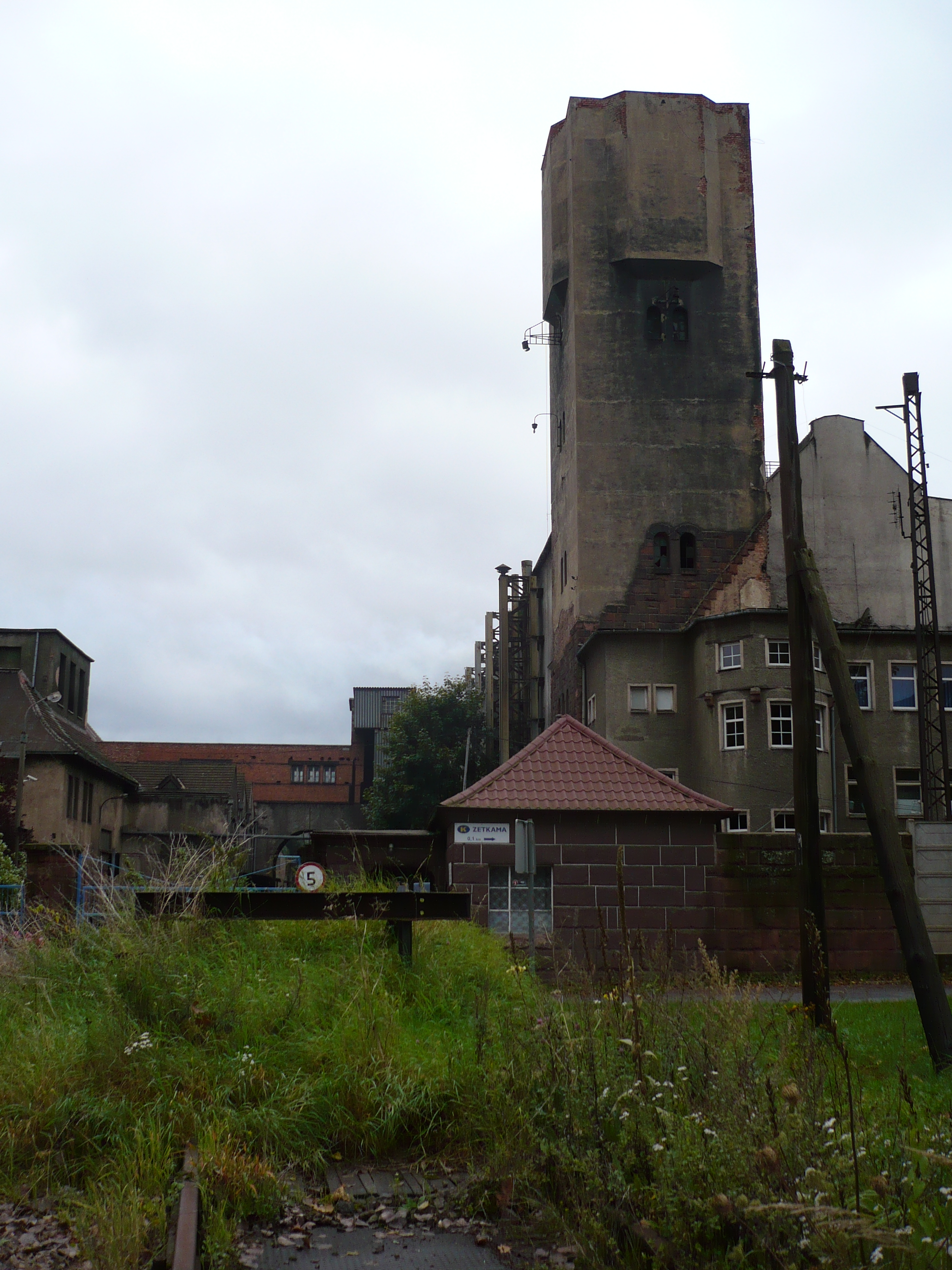 Former power station in Ścinawka Średnia